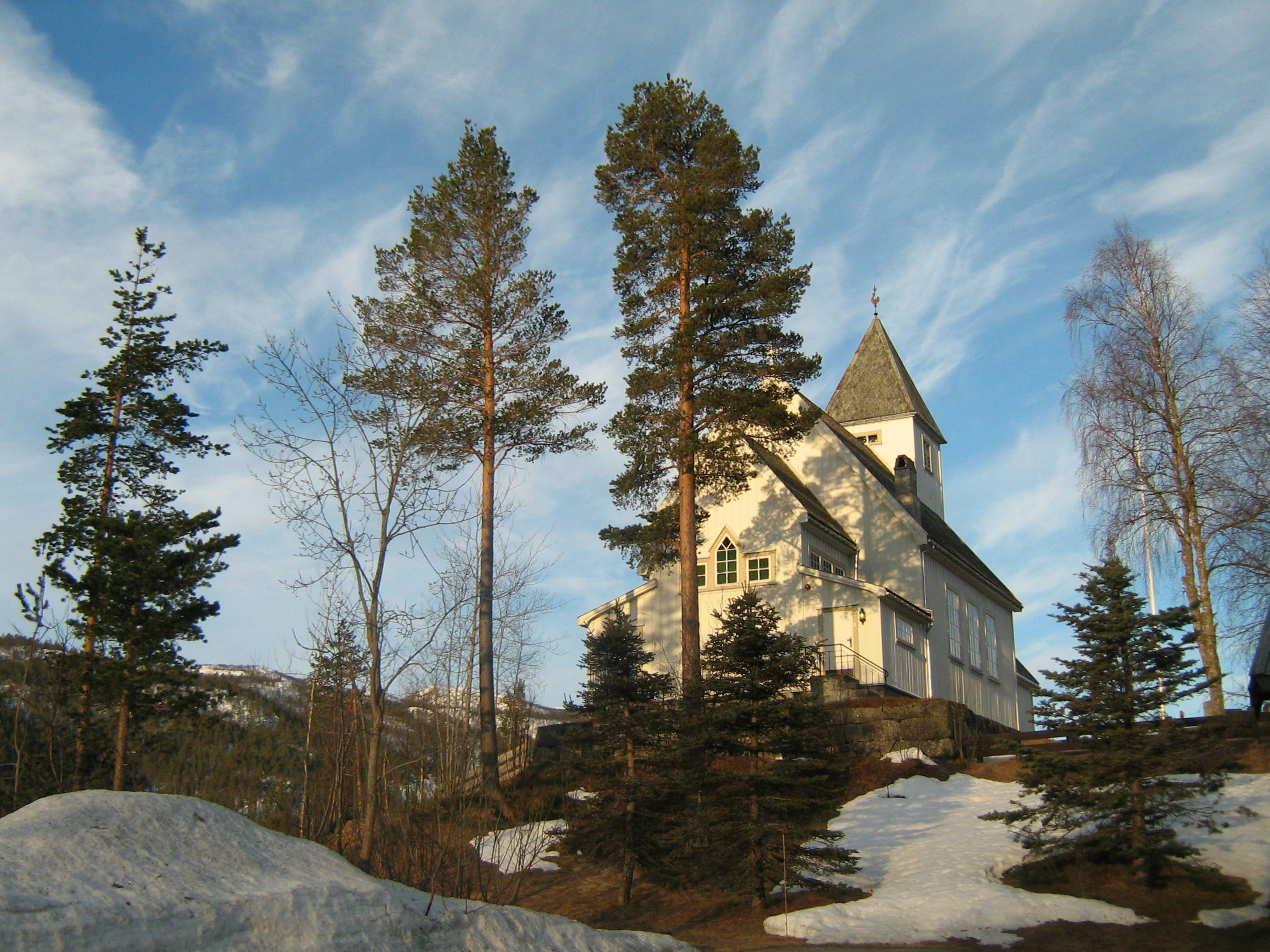 This kyrkje (church) is located in the lovely mountain village Hovet (Hol community) in Hallingdal, Norway. The wooden church was built in 1910, on a higher level as the center of the village. When you are on that hill you can watch the landscape around. The church is on the list of protected buildings. Architect: O.Stein.